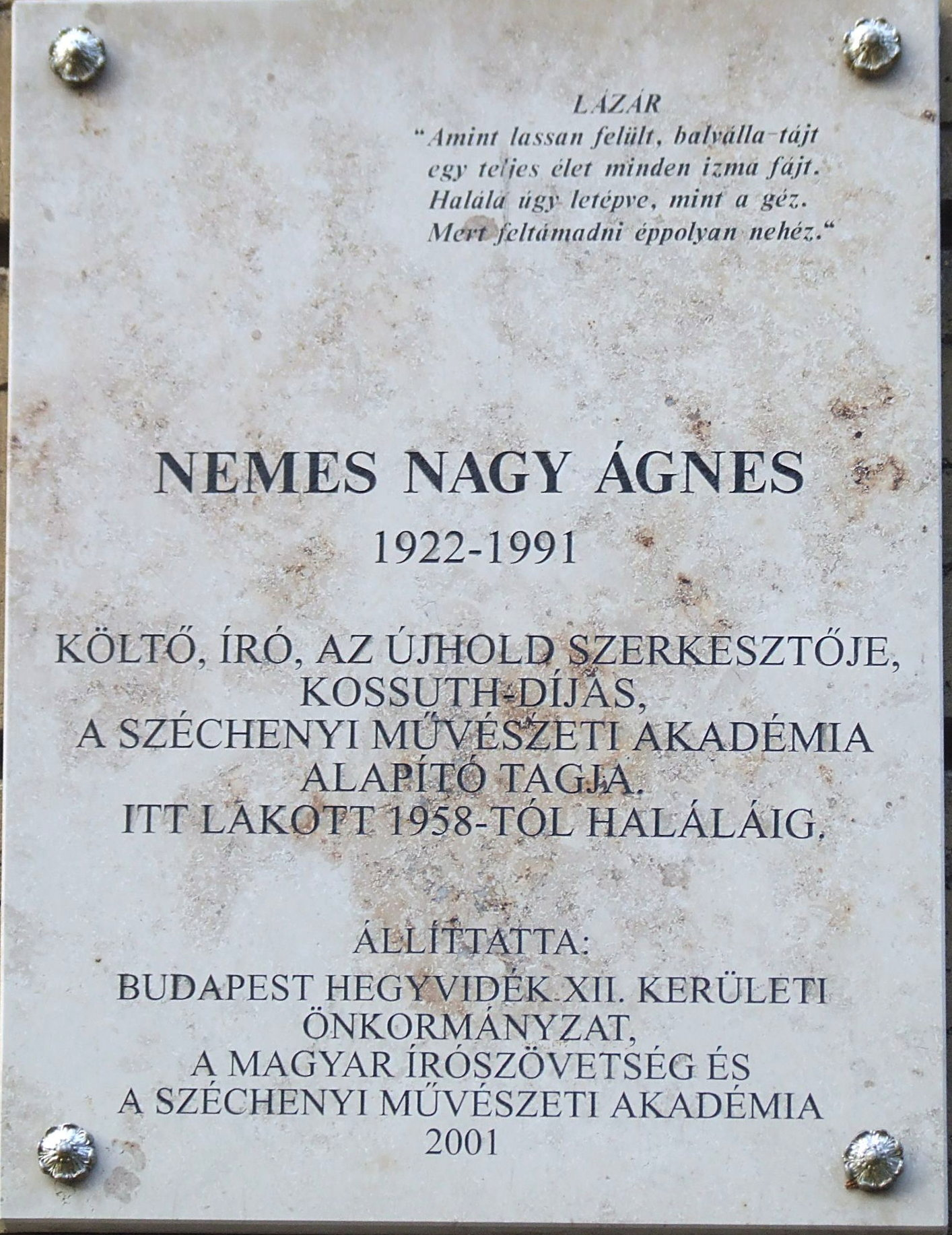 Commemorative plaque of Ágnes Nemes Nagy in Budapest District XII, Királyhágó Street No 5/b